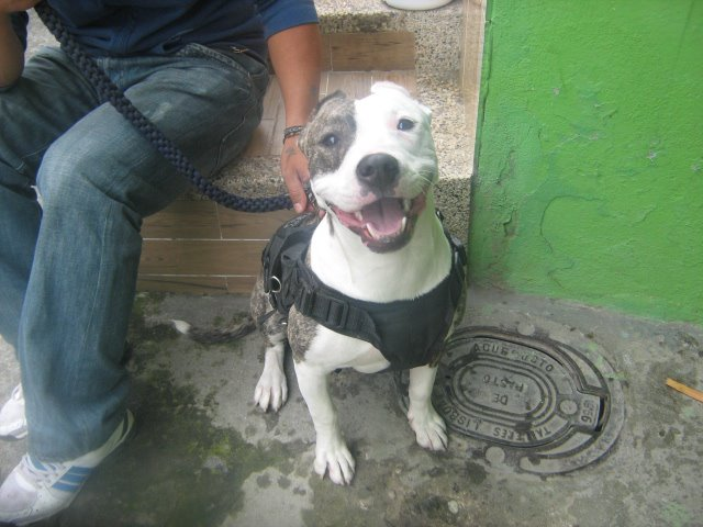 Pitbull Standford